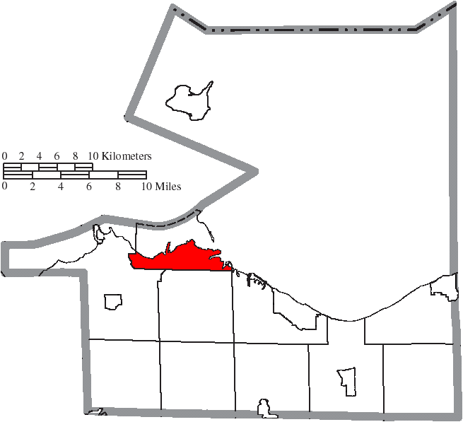 Map of the municipal and township boundaries of Erie County, Ohio, United States, as of the 2000 census, with the location of the city of Sandusky highlighted. Township borders are shown only in unincorporated areas in order to differentiate incorporated and unincorporated areas more clearly.